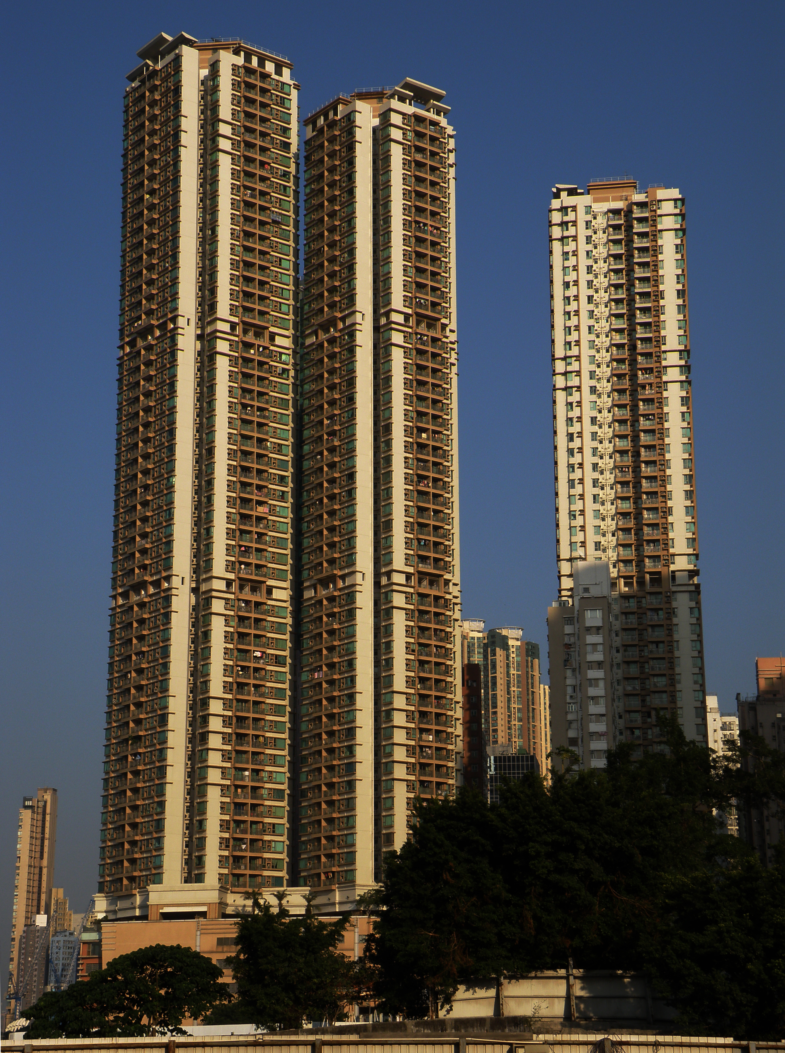 The Merton in Kennedy Town, Hong Kong.